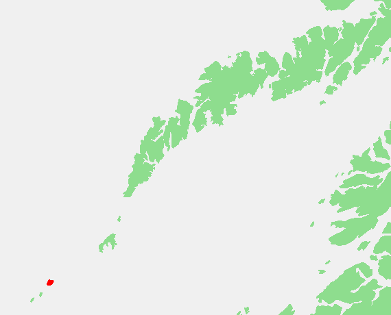 Island of Norway - Rost.PNG